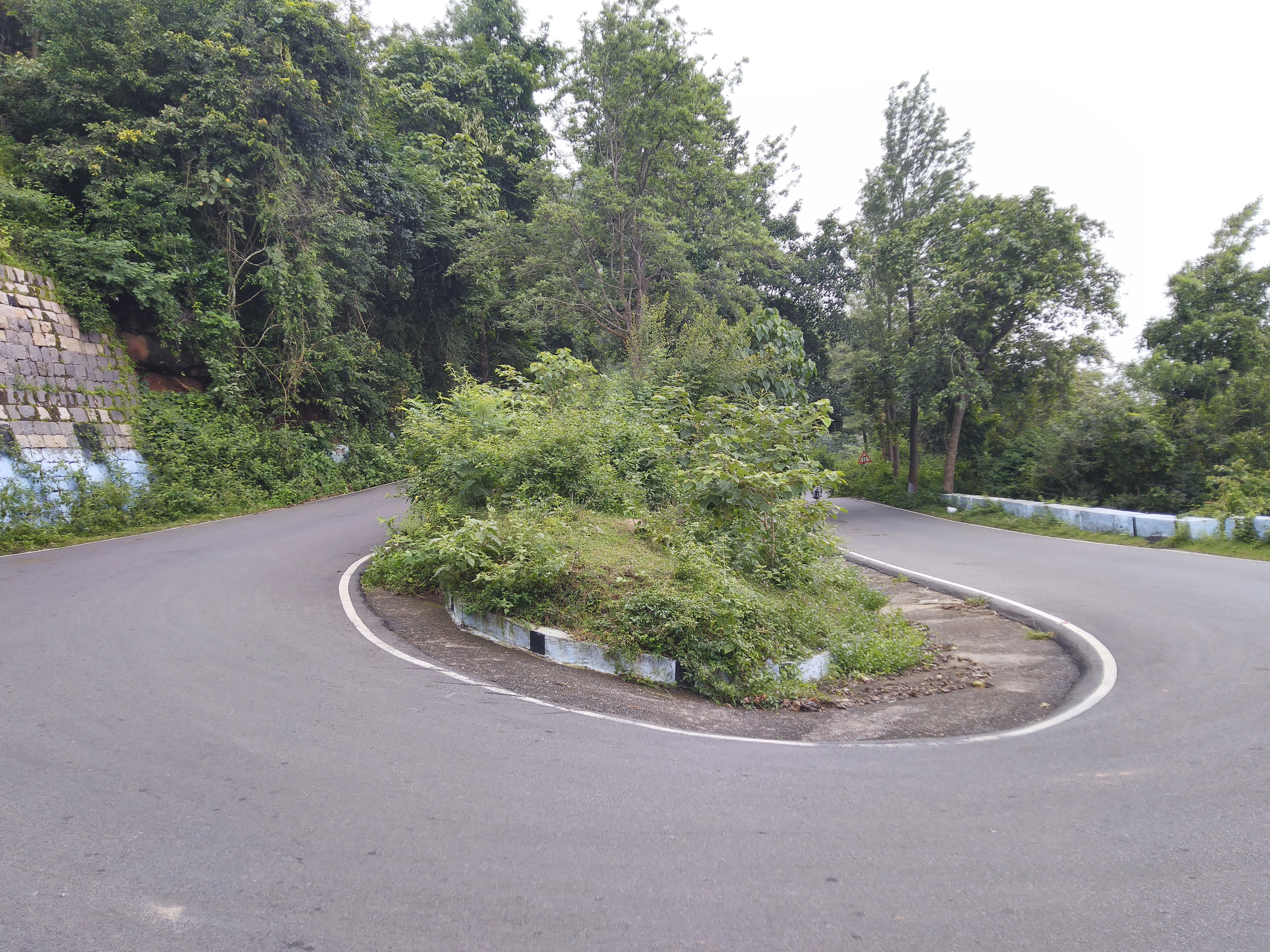 View from the 34th Hairpin on the Karavalli - Kolli Hill road in Namakkal